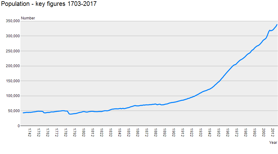 A graph showing the population of Iceland from 1703-2017, using official data from Statistics Iceland (via